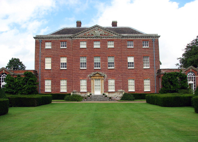 Salle Hall - south elevation Salle Hall was built in 1761 for Edward Hase; alterations were made in 1862, and east and west service blocks were added in 1910 for Sir Woolmer White. The east wing contains an Orangery. (N. Pevsner & B. Wilson, The Buildings of England, Norfolk 1: Norwich and North-East, 2002). Presently, Salle Hall and gardens are part of the Salle Park Estate, owned by Sir John White.